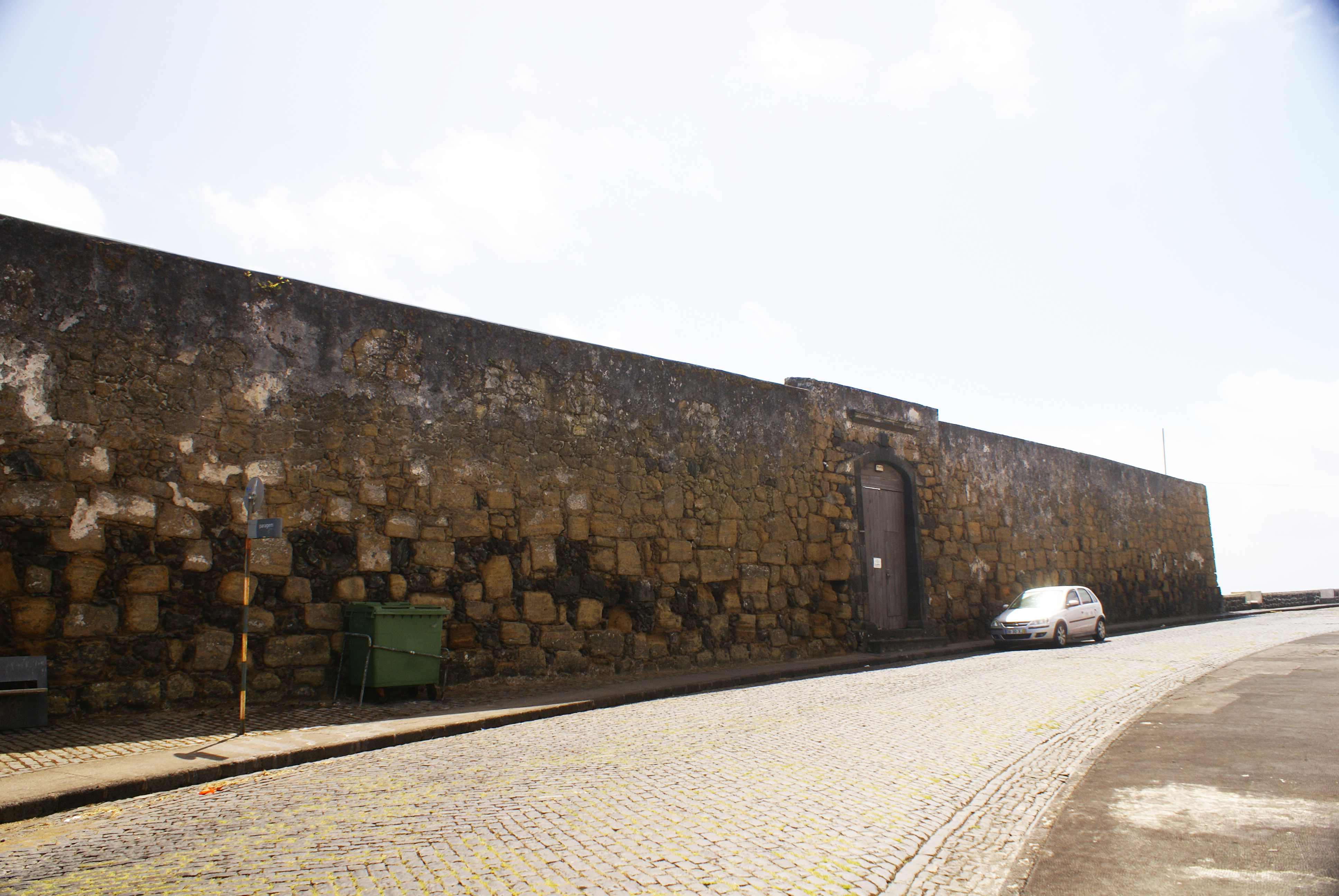 Muralhas do Forte de São Sebastião (Horta), Horta, ilha do Faial, Açores, Portugal